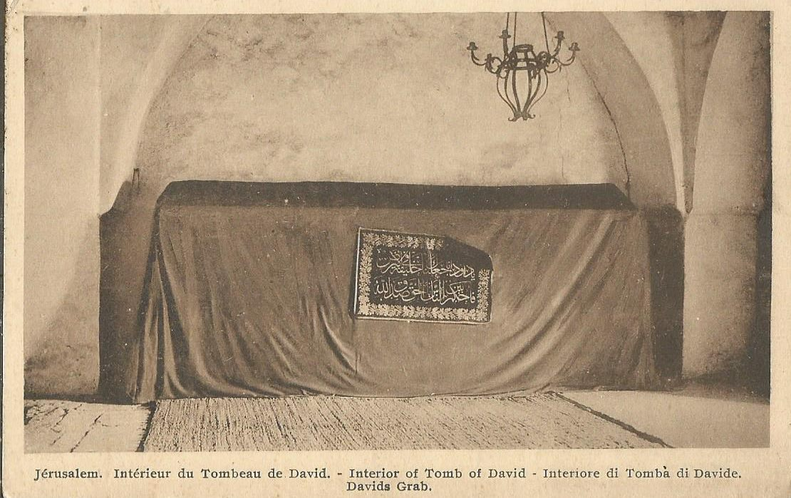 Postcard of David's Tomb in Jerusalem, early 1900s Black and white